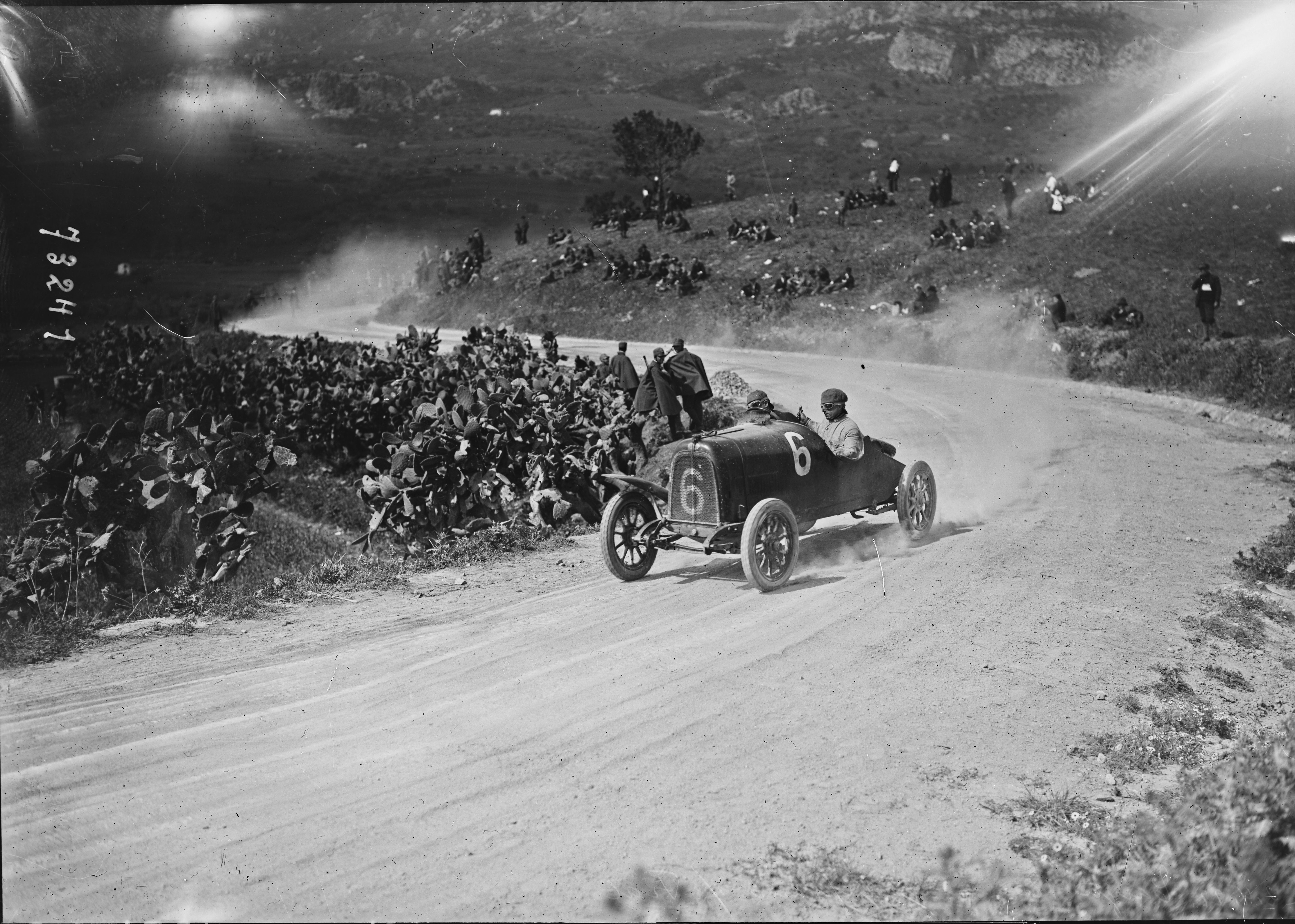 Evasio Lampiano in his Fiat at the 1922 Targa Florio.